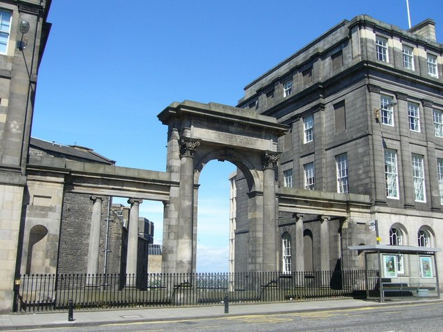 Regent Bridge, Waterloo Place Designed by Archibald Elliot and erected as a war memorial in 1815, the year of the Battle of Waterloo.